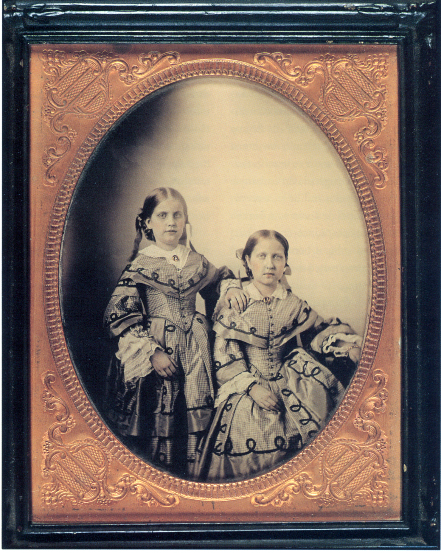 Brazilian Princess Leopoldina and Isabel (seated), 1855.